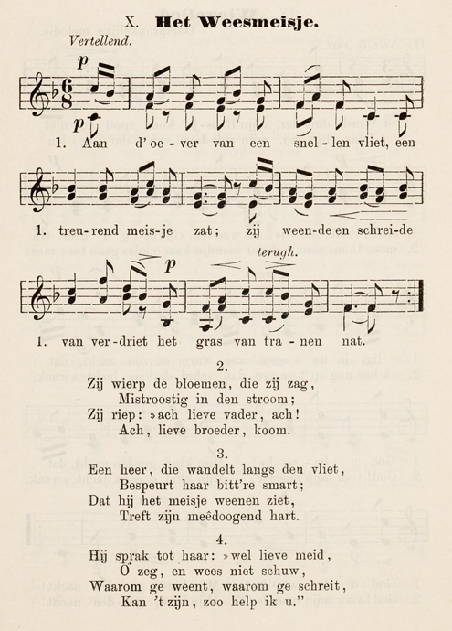 Song sheet (music sheet) with the folk song 'Aan d' oever van een snellen vliet / Een treurend meisje zat'. With music notation. Not dated; printed around 1900. Source: Lbl KB Wouters 20029a, Wouters/Moormann, Meertens Instituut, Amsterdam. Online source: Het Geheugen van Nederland (